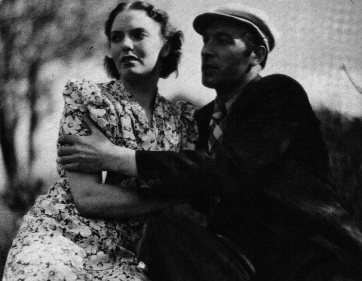 Photograph of the Finnish actors Mirjami Kuosmanen (1915–1963) and Gunnar Hiilloskorpi (1908–1941).